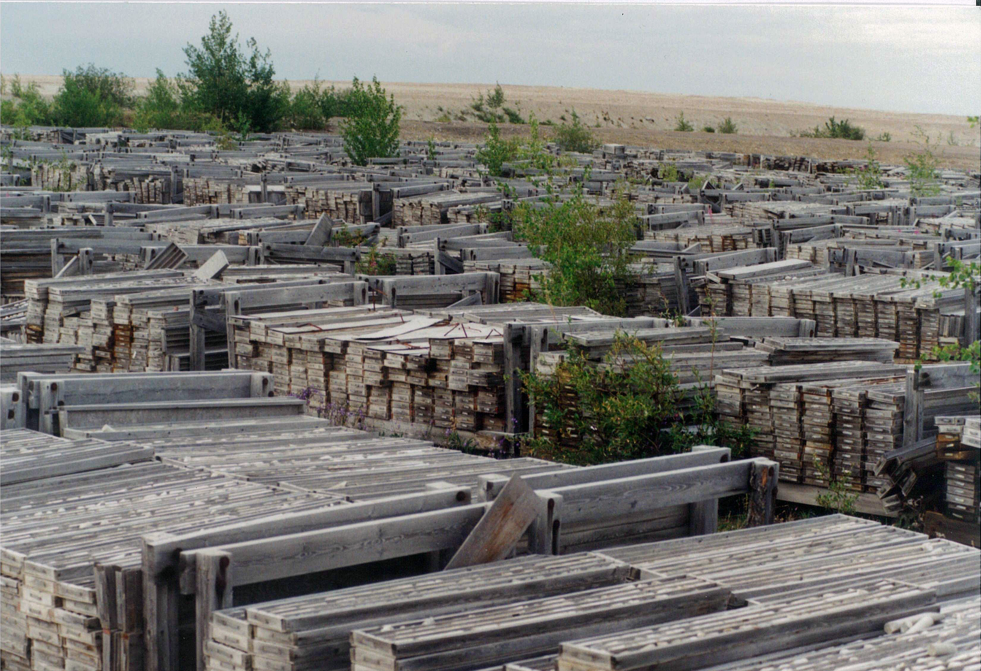 Acres of drill cores at the Pine Point lead-zinc mine. Partial view of it. Two to three football field lengths across and maybe 8 to 10 fields long. A huge laydown of drillcore from 25 years work locating 50 lead-zinc deposits at Pine Point, NWT, Canada. Scan of a photo taken in the early 1990s. Quite a grove of poplar trees there now.